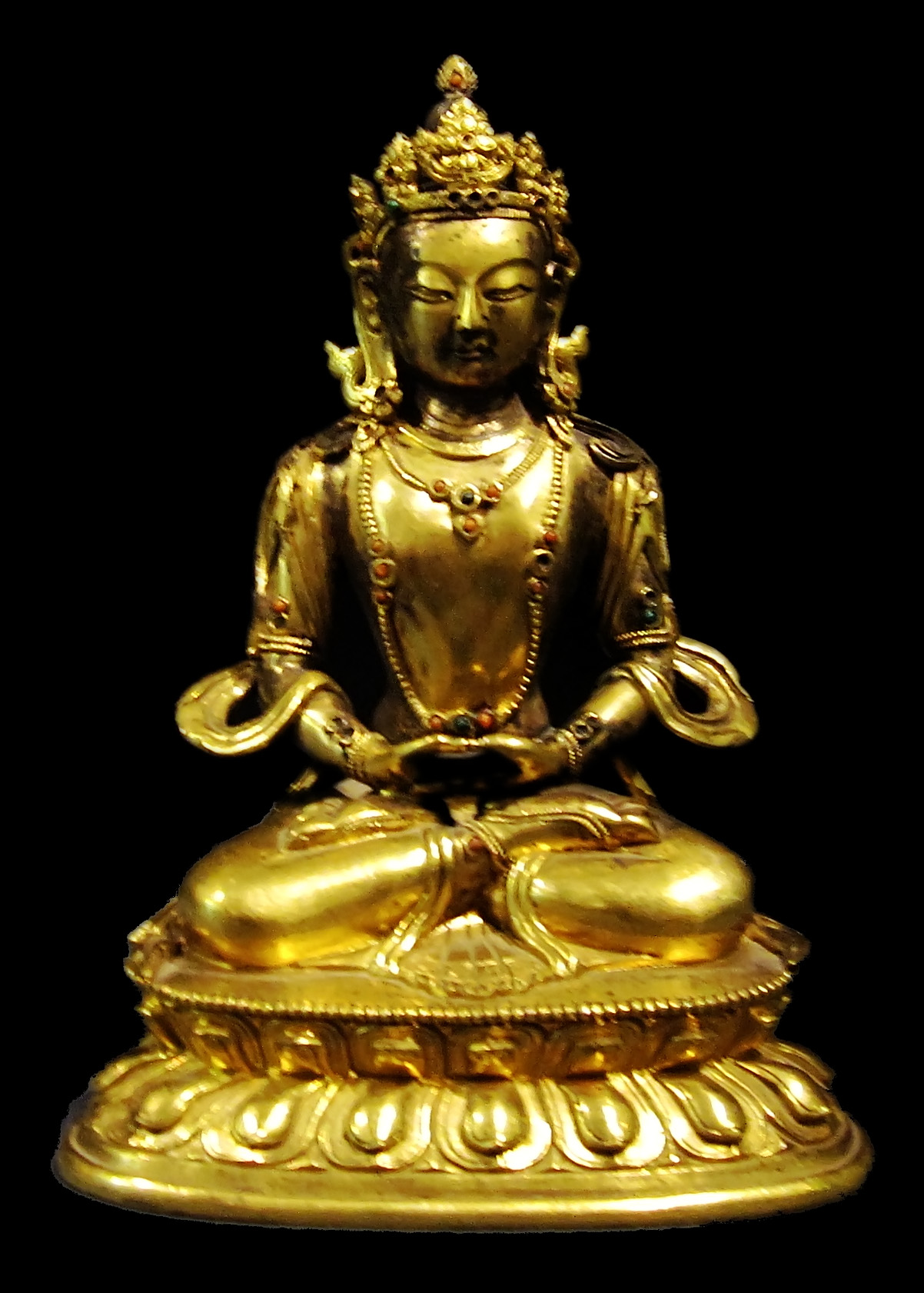 Statuette of Buddha Amithaba. 18th century from Mongolia.